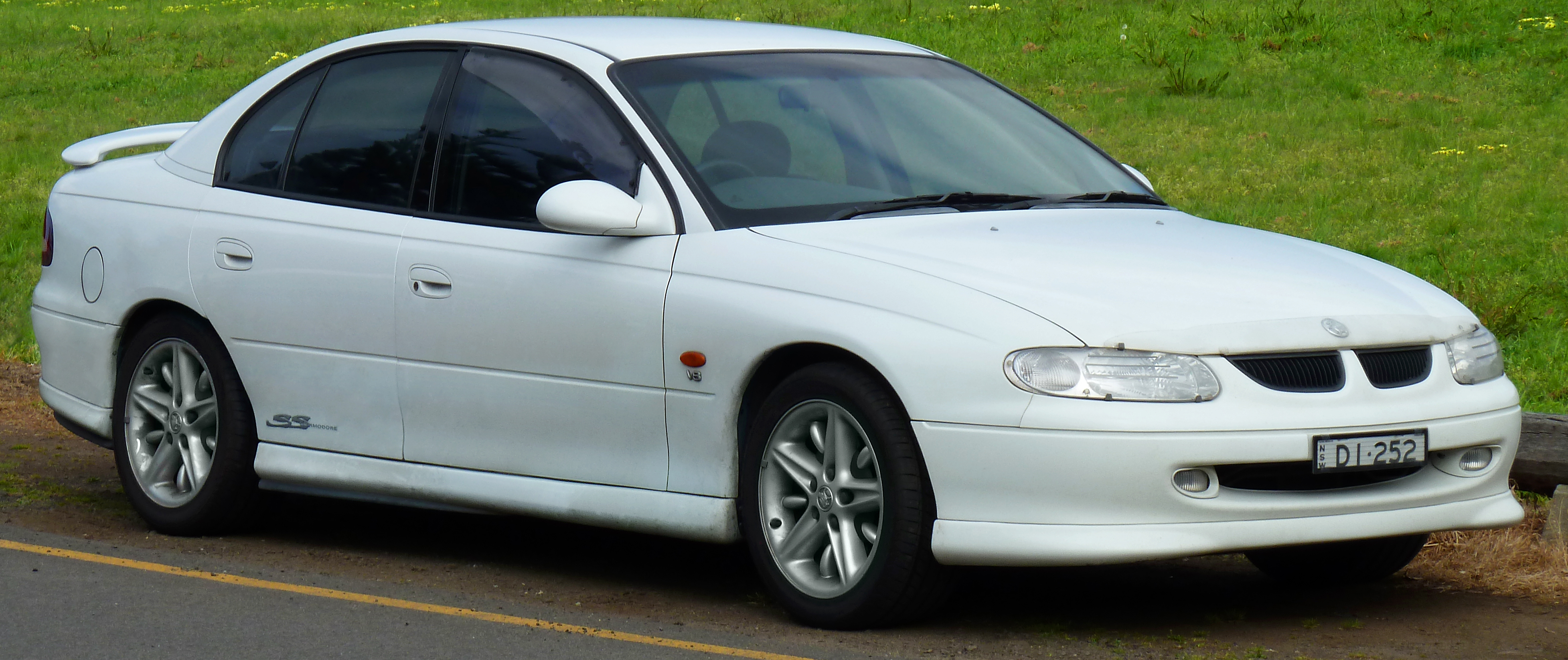 1999 Holden Commodore (VT) SS sedan. Photographed in Sans Souci, New South Wales, Australia.